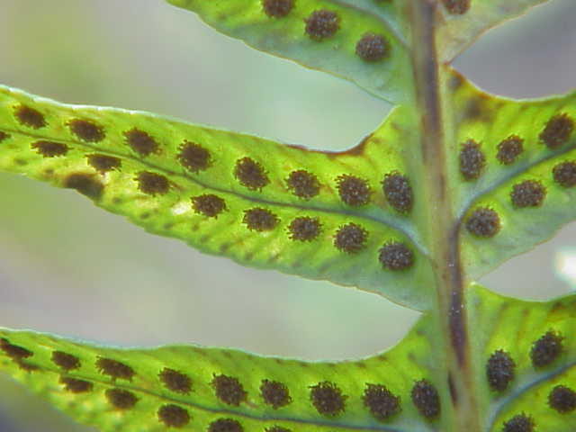 Species: Polypodium vulgare Family: Polypodiaceae Image No. 1